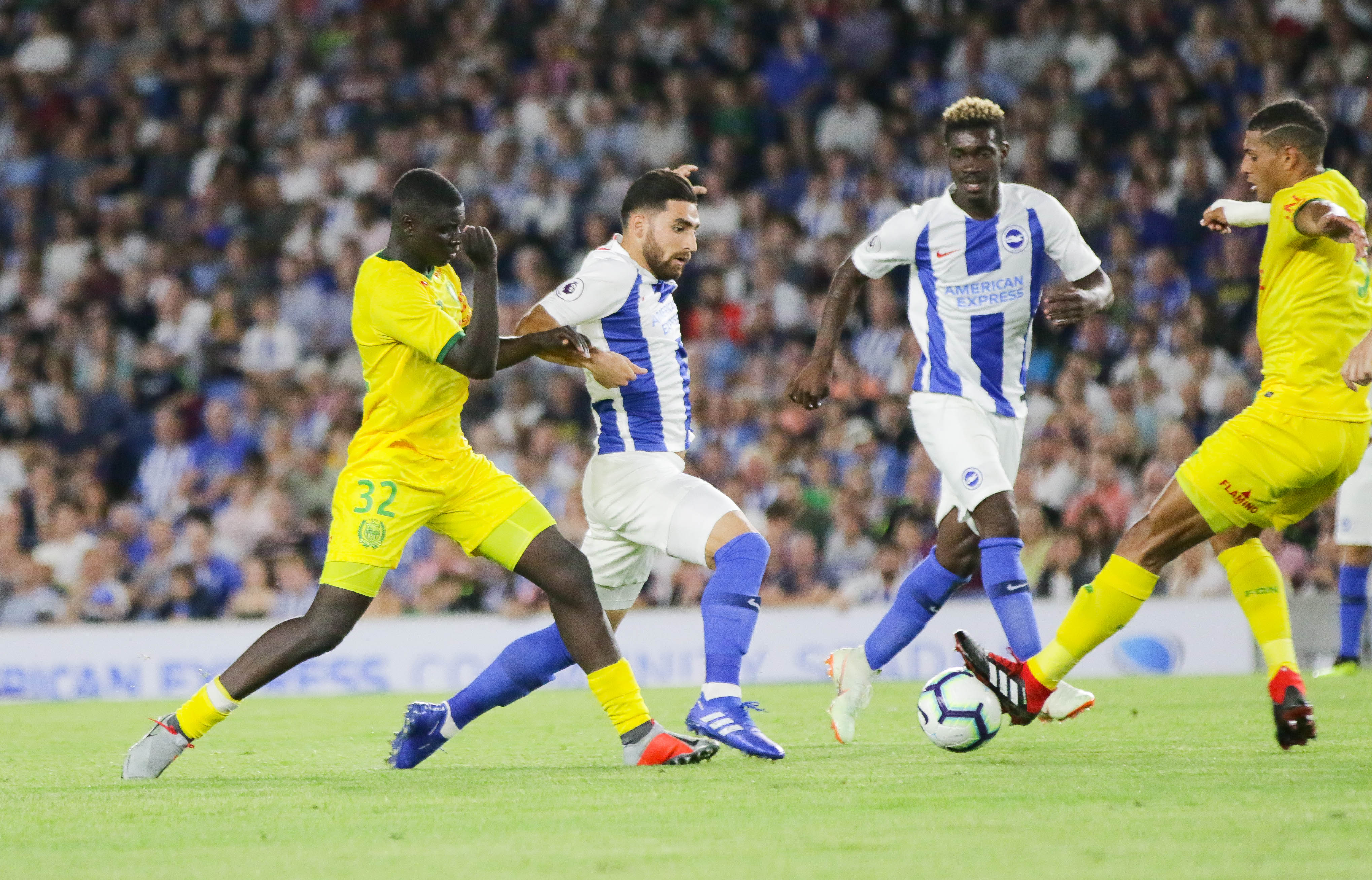 BHA v FC Nantes pre season 03 08 2018-1144.jpg